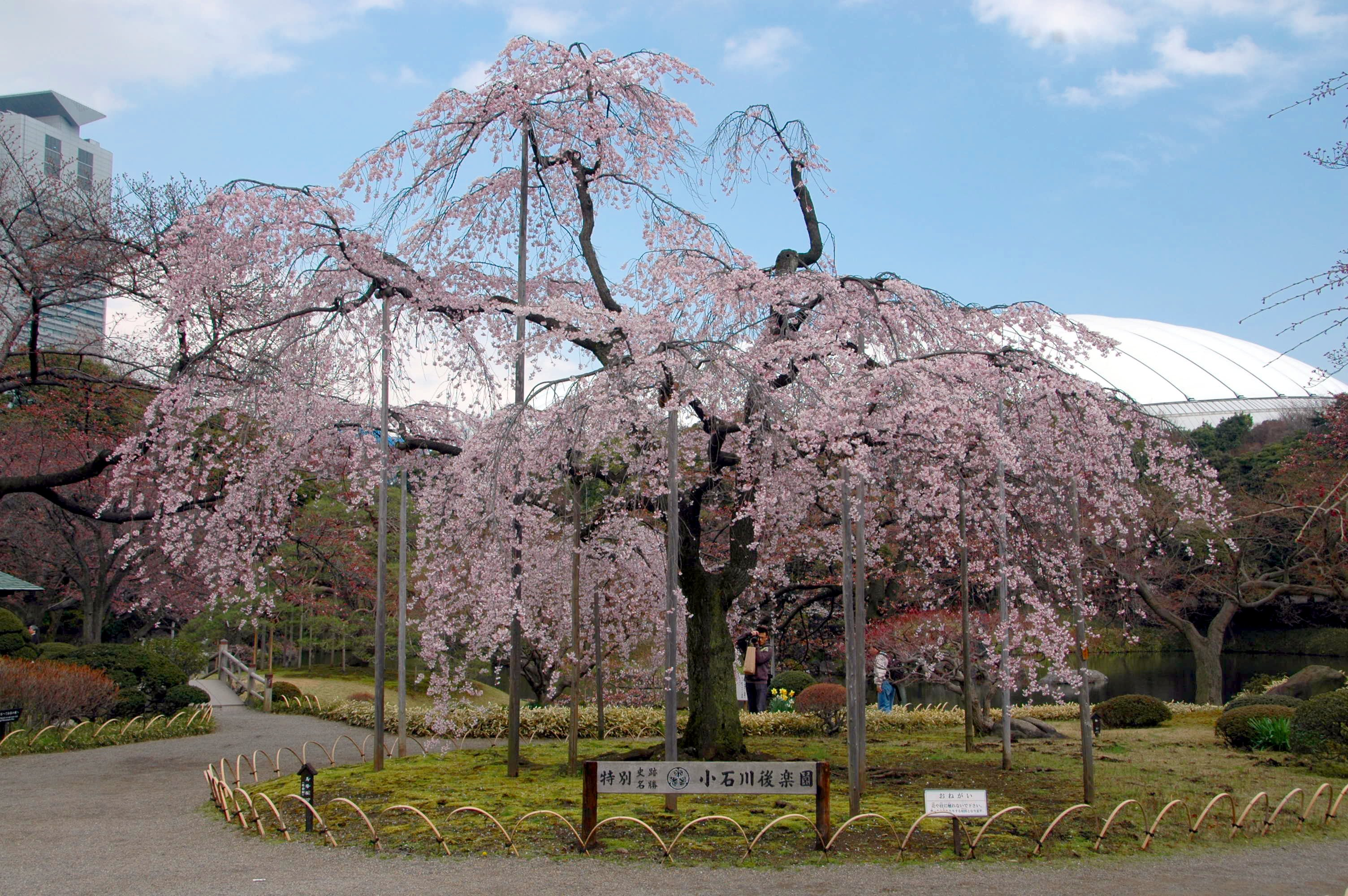 The symbol sakura of Koshikawa-Kourakuen in Tokyo, Japan